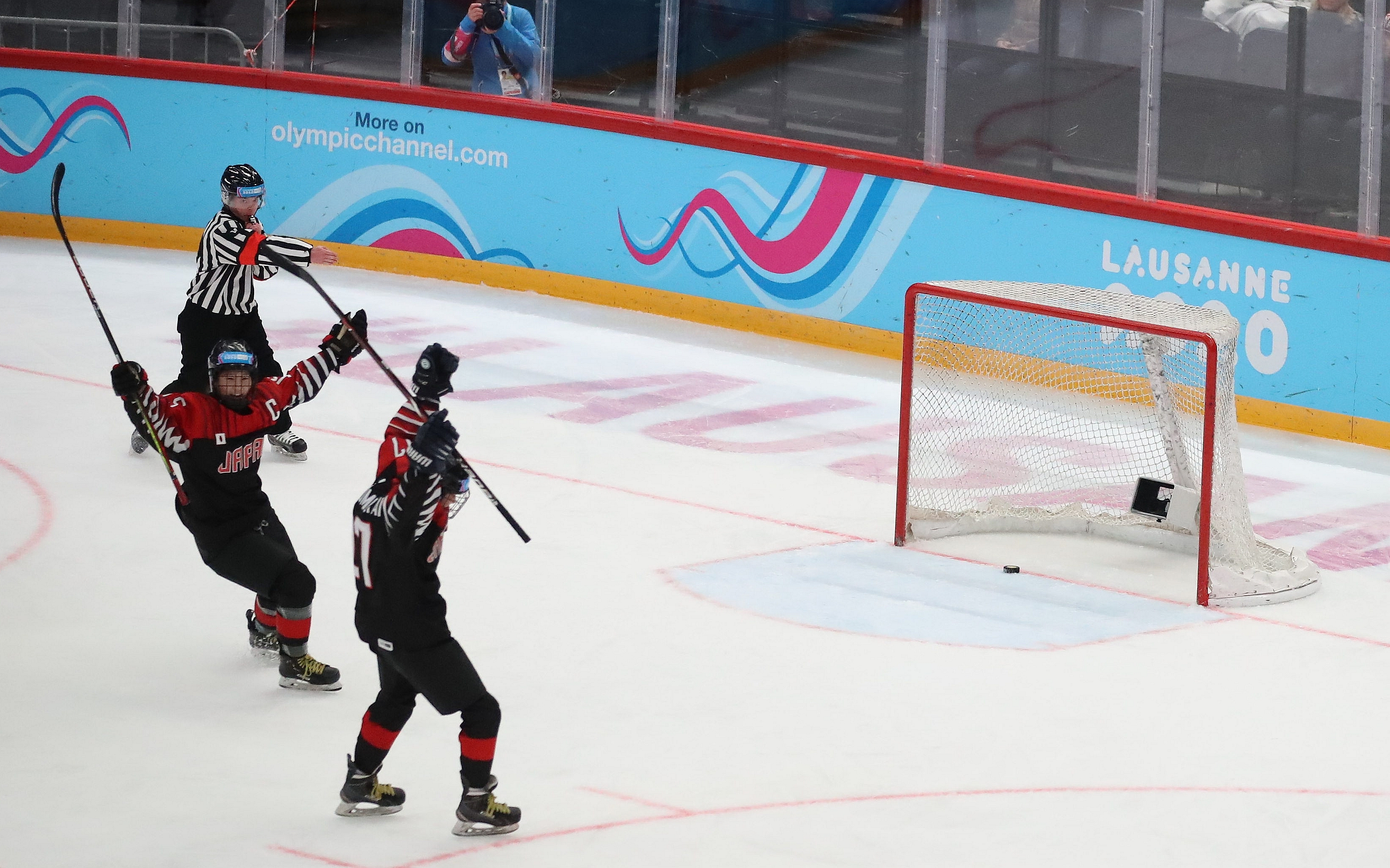 Ice hockey Women's 6-Team Tournament Gold Medal Game at the 2020 Winter Youth Olympics in Lausanne on 18 January 2020: Japan vs. Sweden.